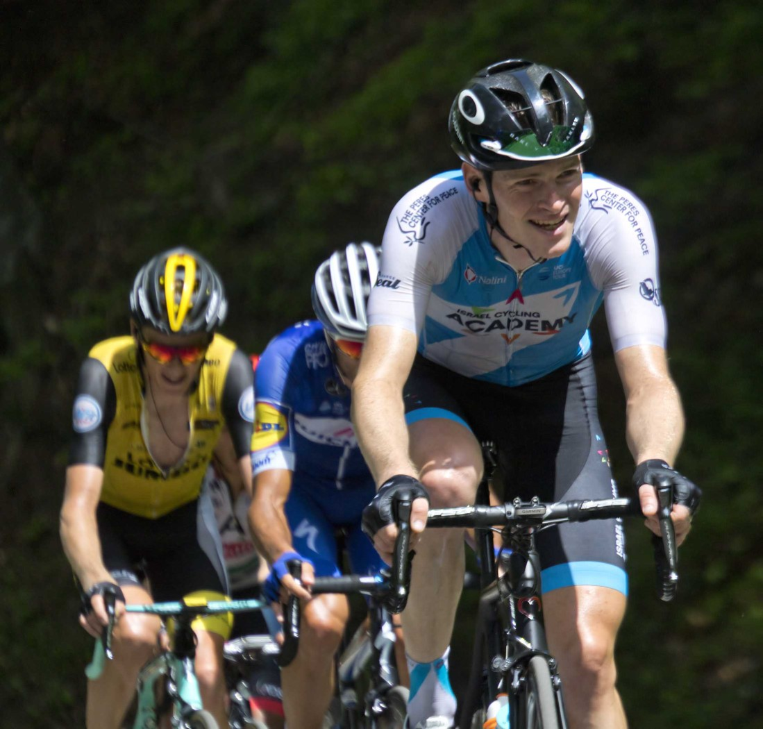 GIR40245 hermans